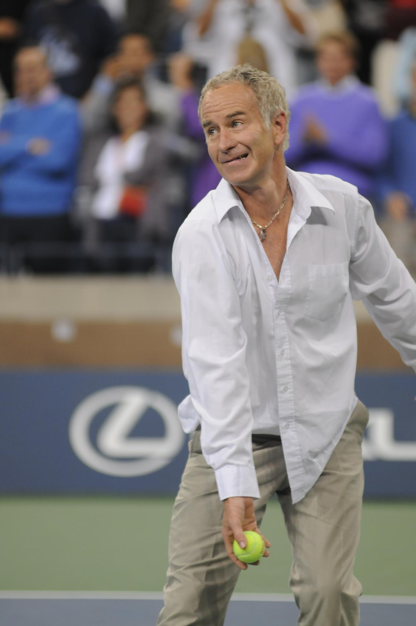 John McEnroe at the 2009 US Open